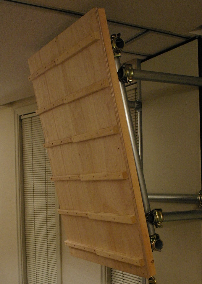 Campus board, two rows of different thickness